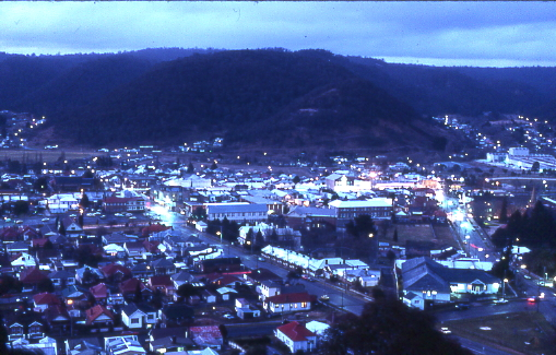 Lithgow photo by Sardaka (talk) 08:49, 26 April 2008 (UTC)